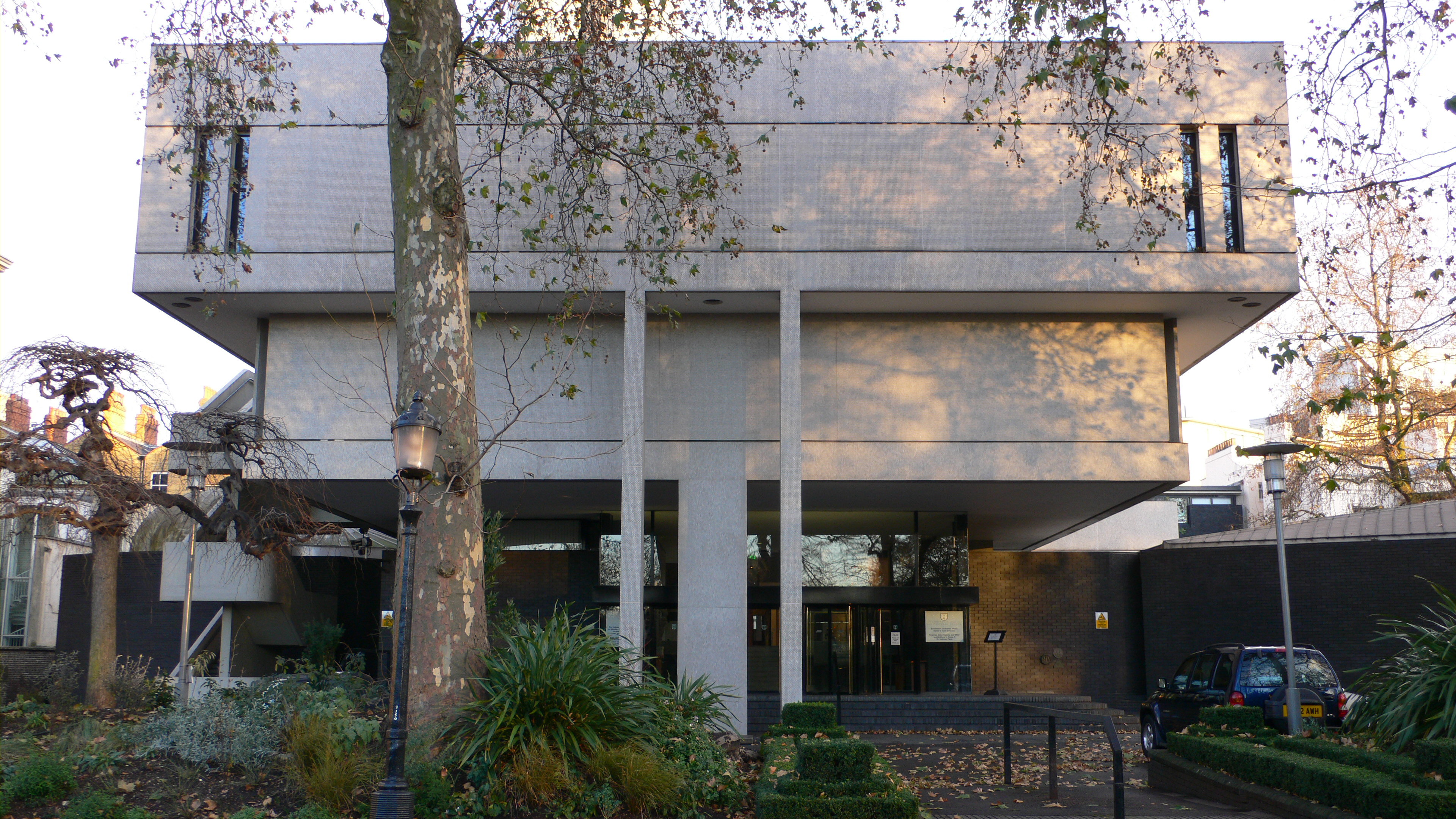 Royal College of Physicians, Denys Lasdun architect, 1964 London